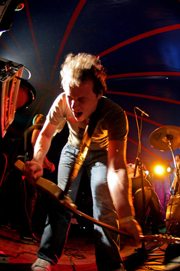 Otis performing live